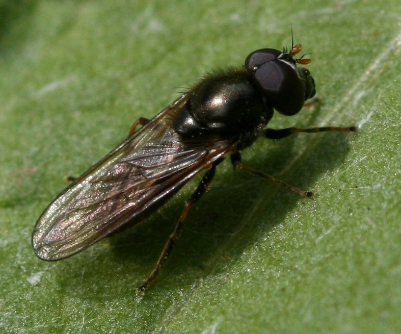 A male Cheilosia pagana